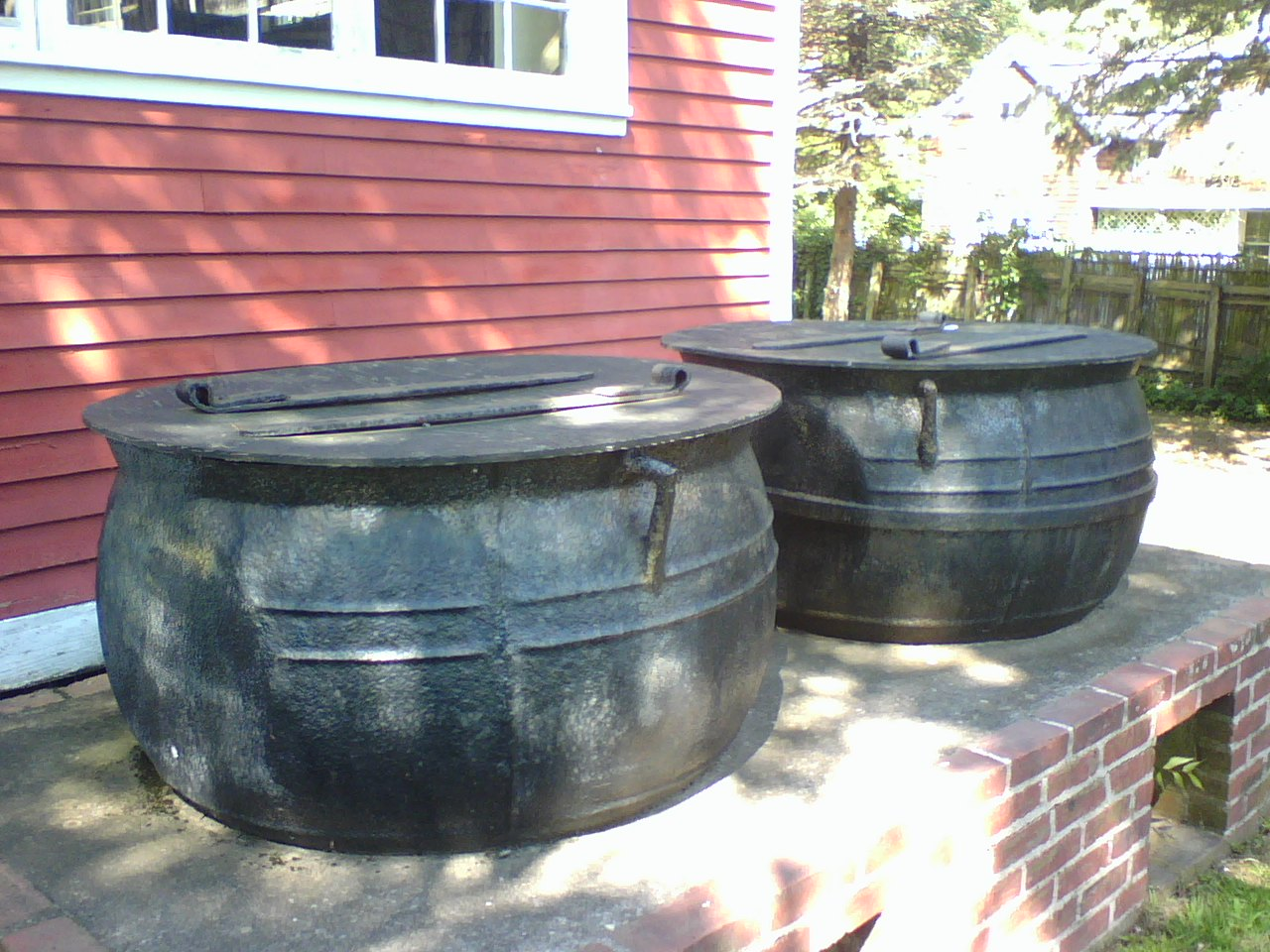 Whale oil production: try pots from south hampton historical museum